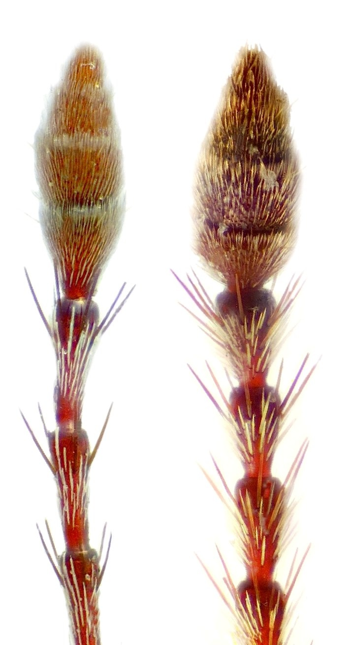 Curculio glandium vs C. nucum antenae